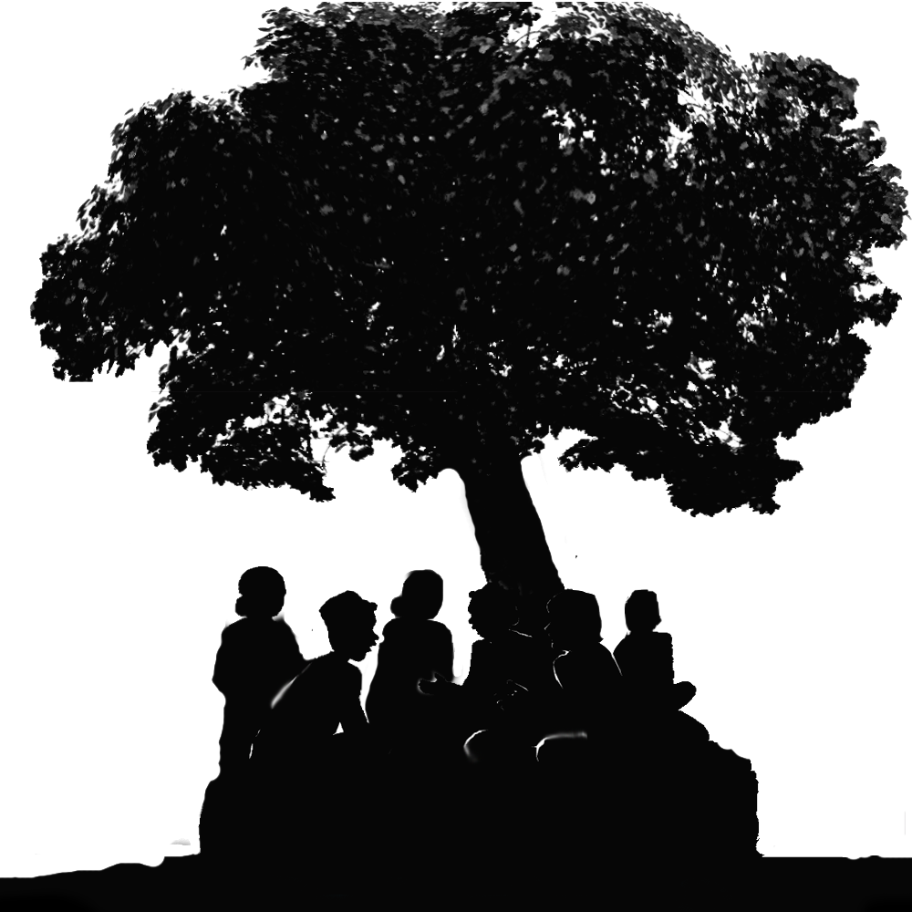 Nepali Chautari, a Place for discussion.